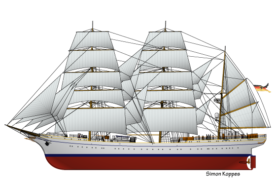 Drawing of the German sailing ship Gorch Fock